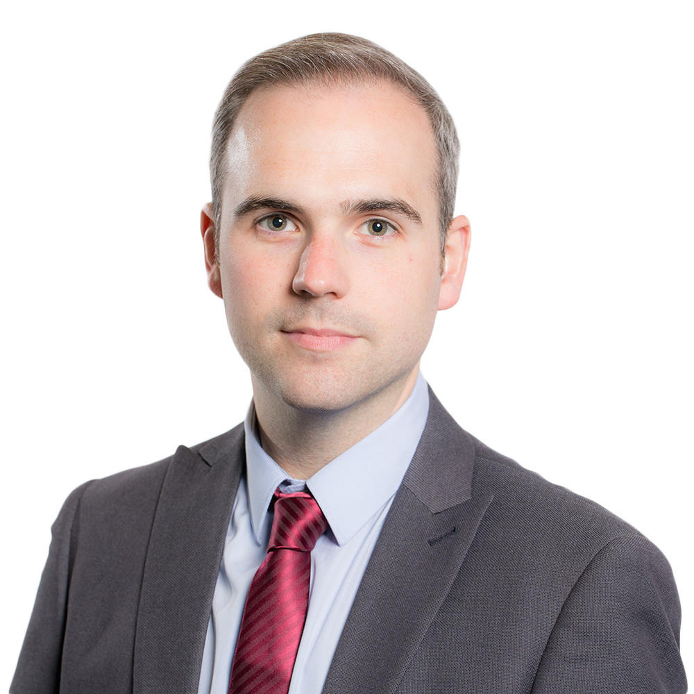 Plaid: Plaid Cymru Rhanbarth: Dwyrain De Cymru Party: Plaid Cymru Region: South Wales East